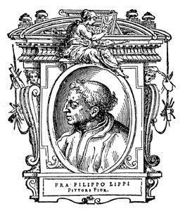 Illustratio from "Le Vite" by Giorgio Vasari, edition of 1568. For the artist portrayed see filename